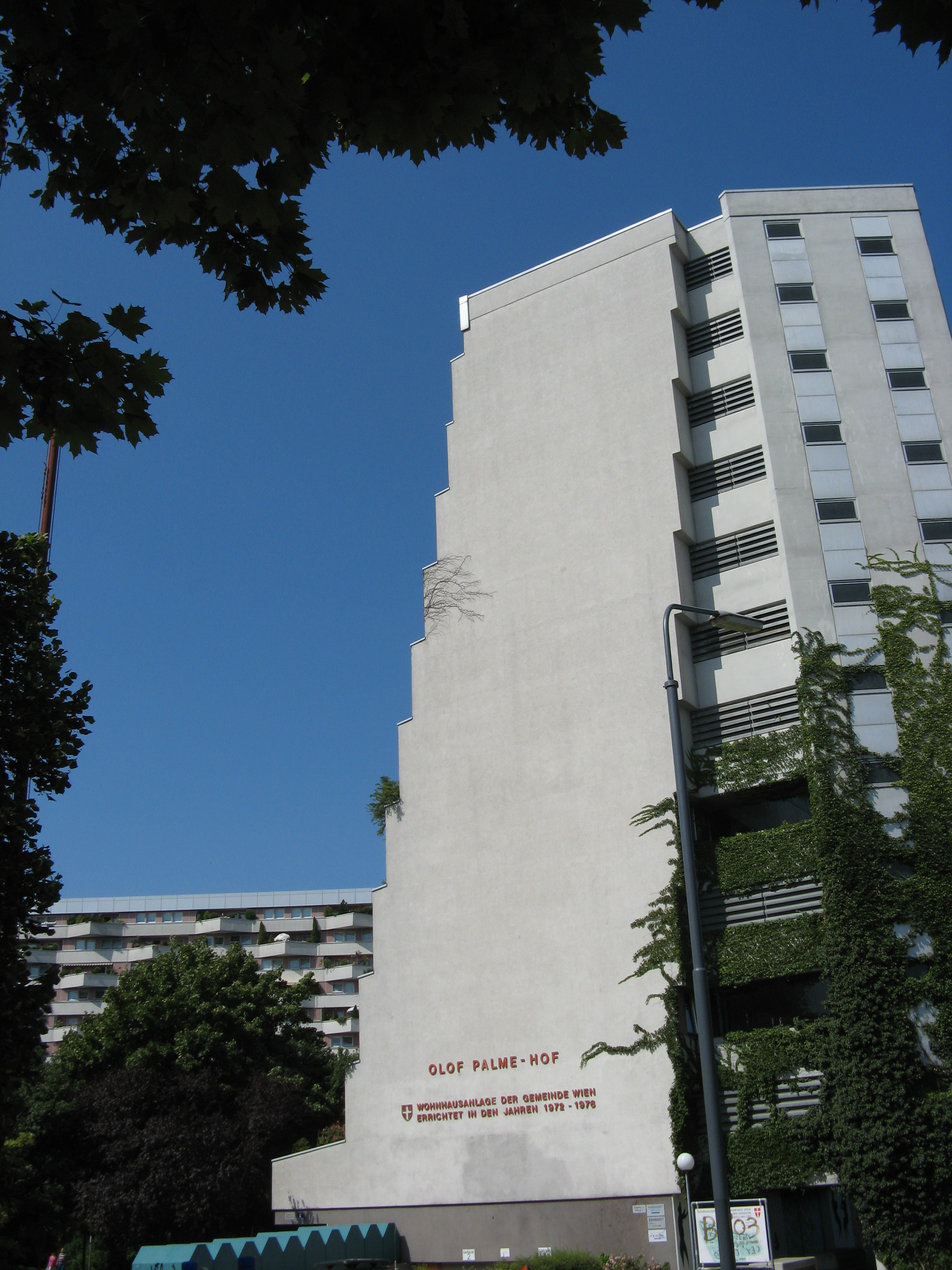 Olof-Palme-Hof (1972-76), Ada-Christen-Gasse 2, Per-Albin-Hansson-Siedlung Ost, Wien-Favoriten This media shows the Vienna residential building (Gemeindebau) with the ID 254 (Olof Palme-Hof).